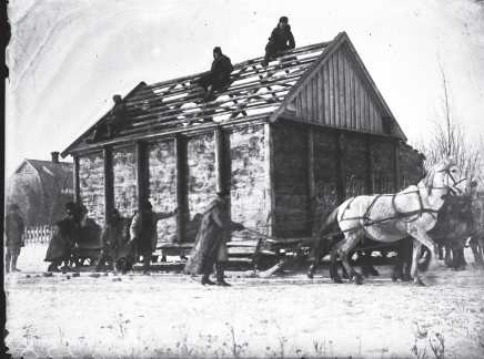 kulaks barn taken away dekulakisation